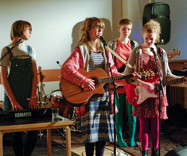 Pascal Pinon in early performance